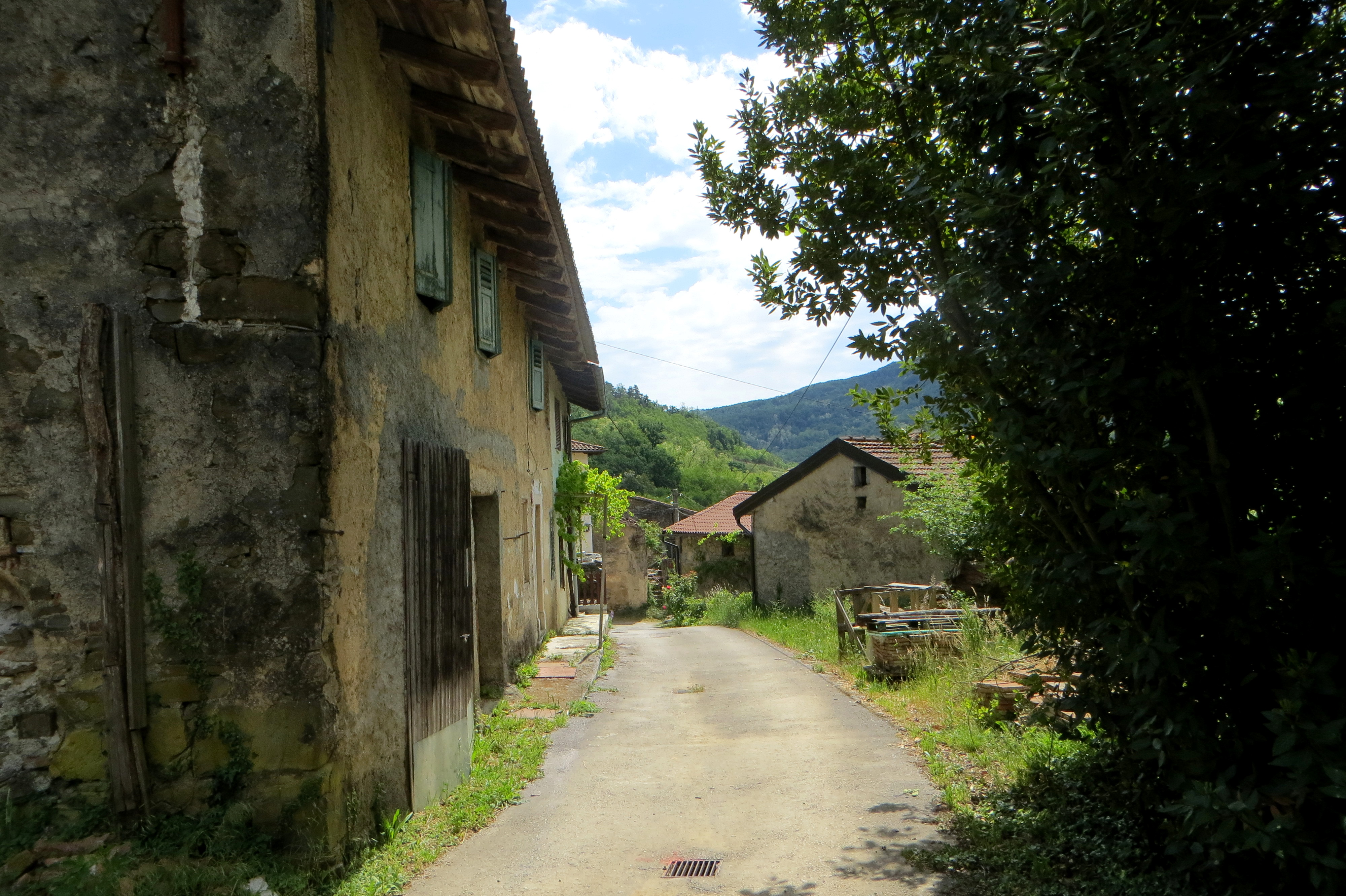 The hamlet of Gornja Vas in Dolanci, Municipality of Komen, Slovenia